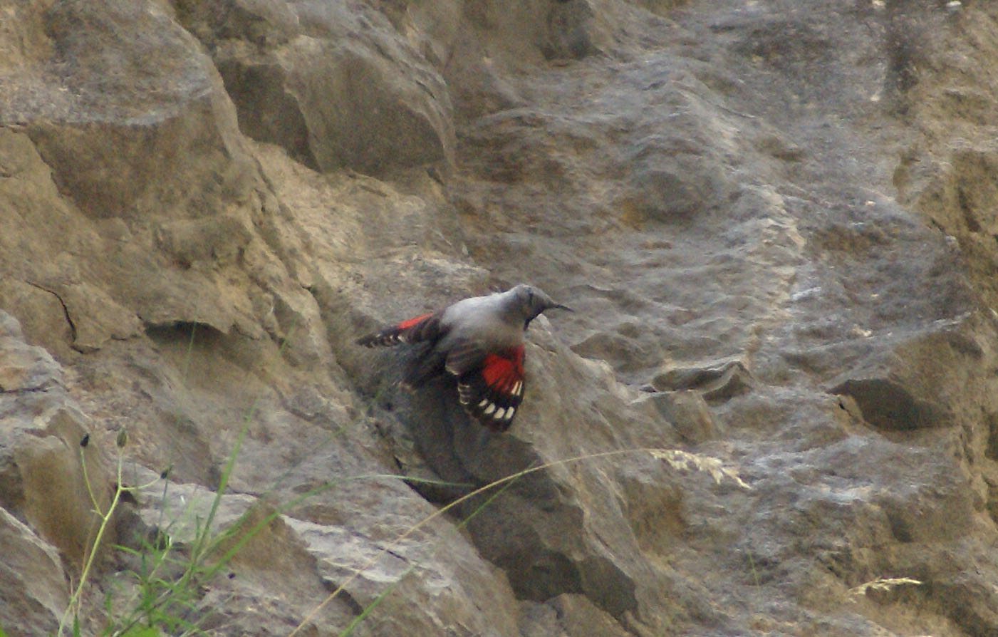 Wallcreeper Tichodroma muraria, adult male in summer plumage, Pyrenees.